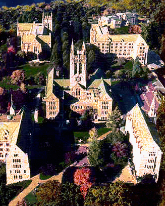 Gasson Quadrangle, Boston College from Image:BCgassonquadaerial.jpg 2005-07-09 09:06:31 Photo by User:Widosu